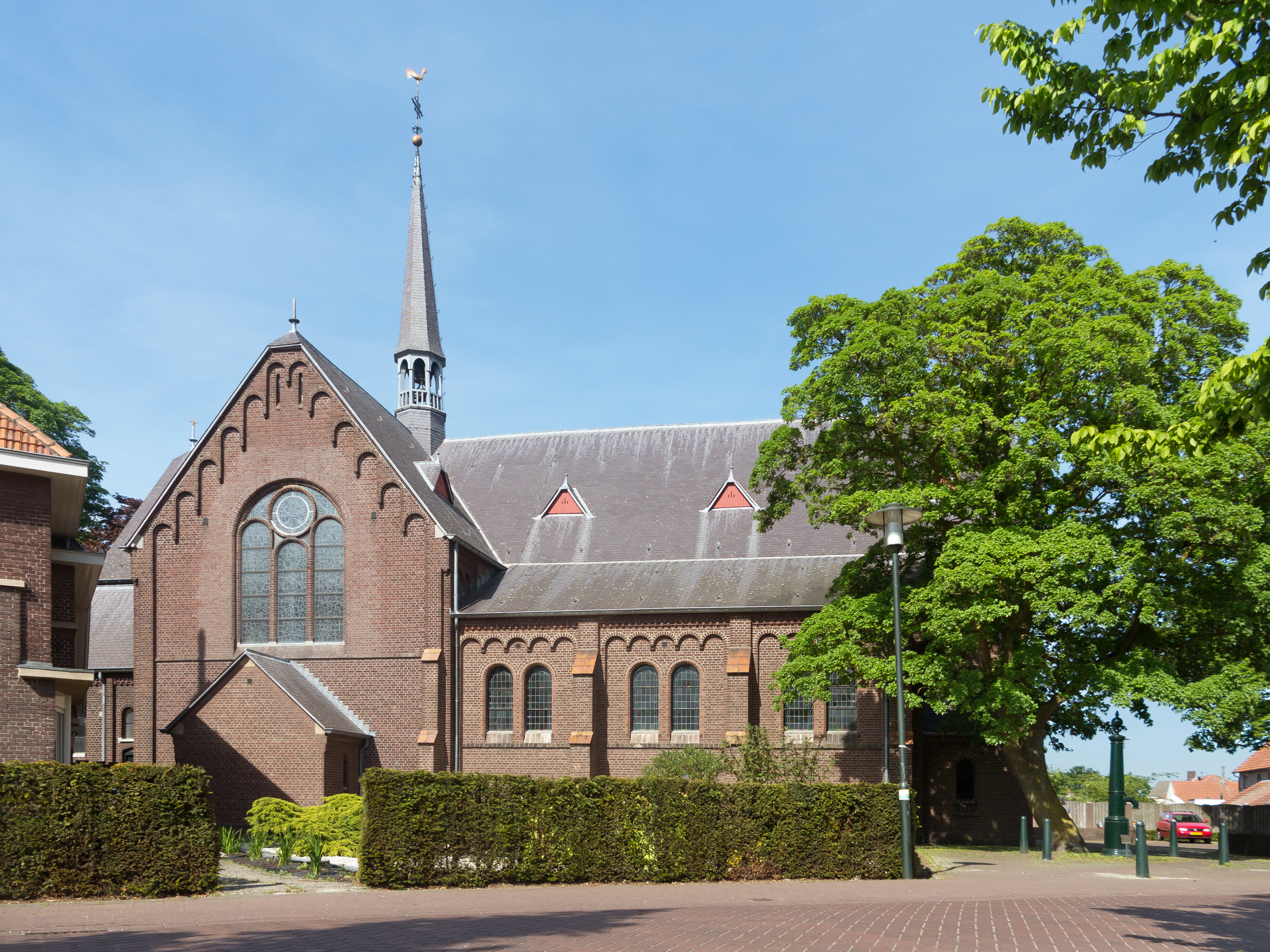 America, catholic church: de parochiekerk Sint Jozef